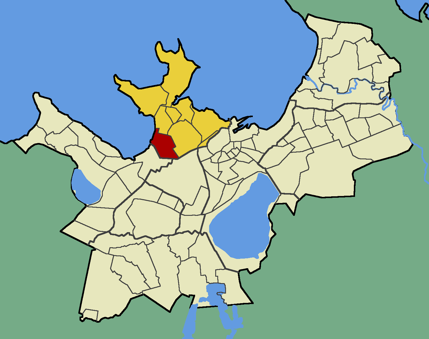 Map of Tallinn (Estonia) with borders of the quarters, Põhja-Tallinn district and Merimetsa quarter emphasised